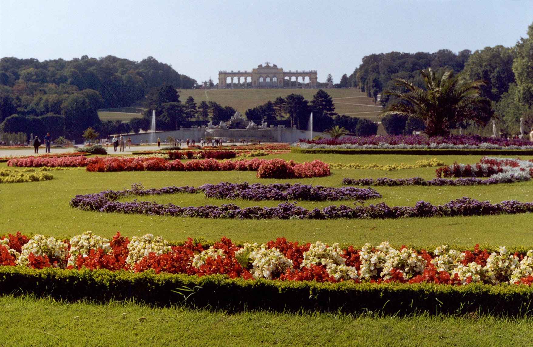 The Gloriette at the top of the hill behind the Schönbrunn Palace in Vienna.